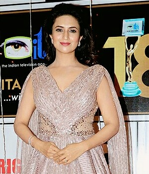 Tripathi at the ITA Awards 2018